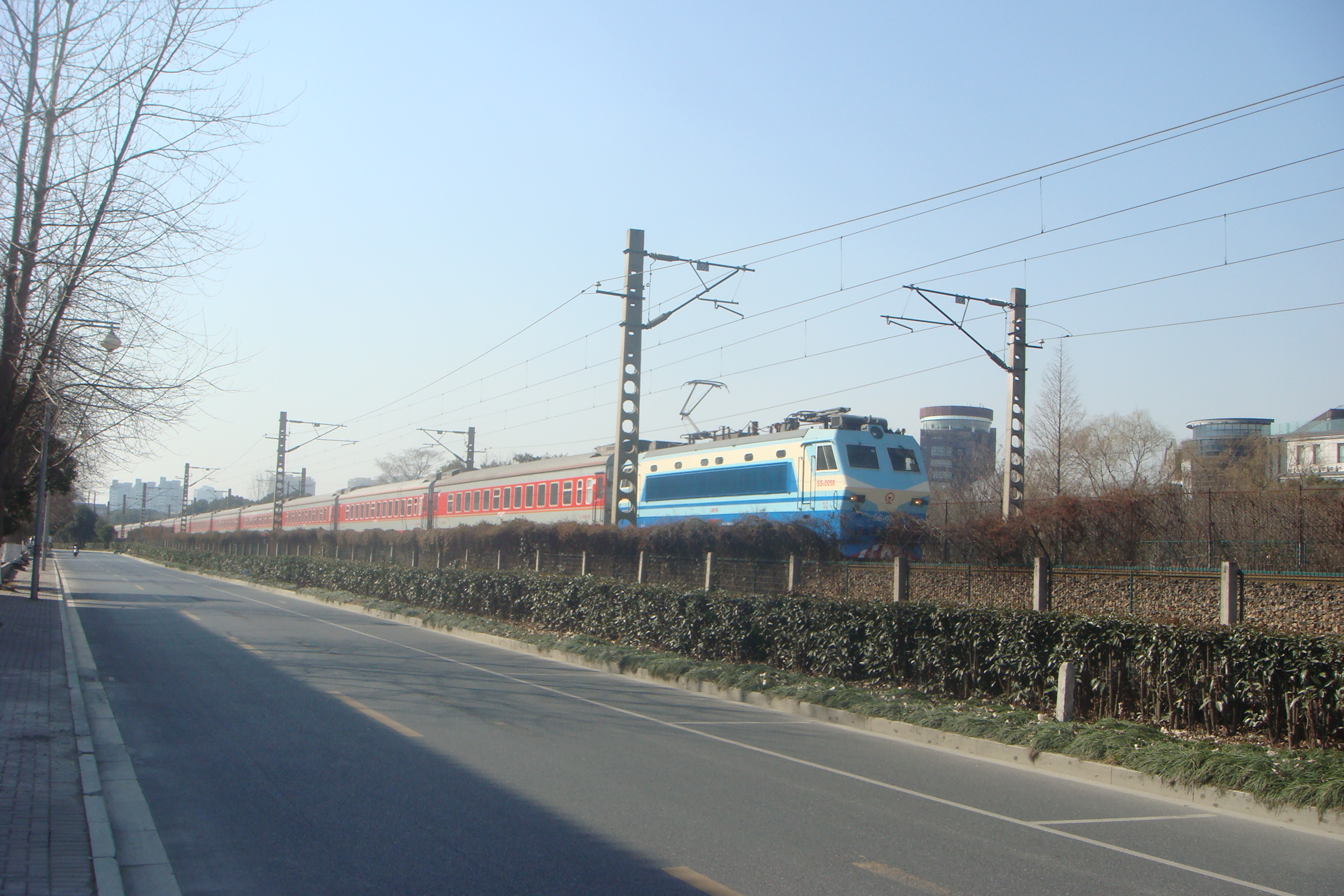 201401 K72 in Jiaxing